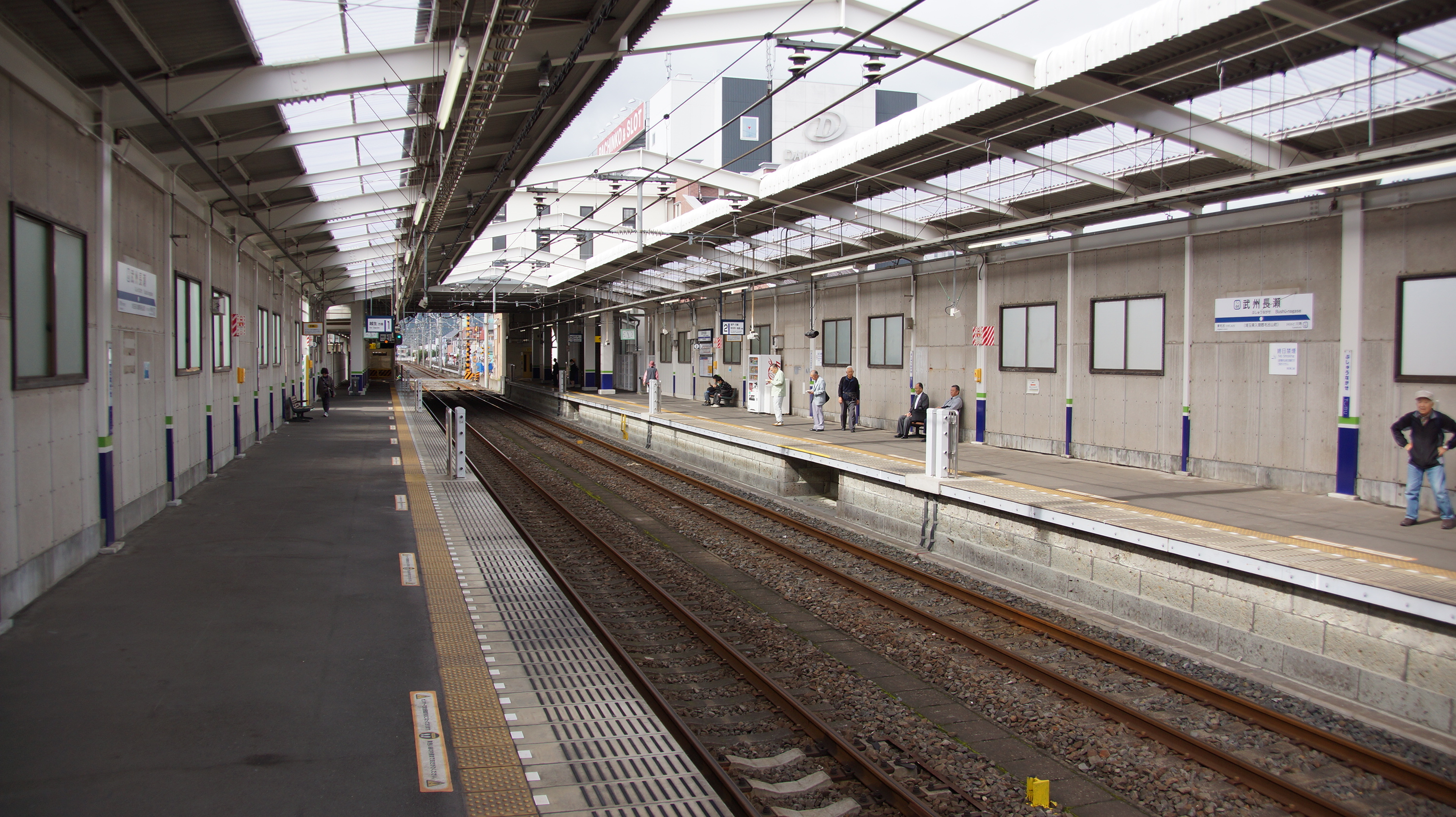 The Sakado end of platform 1 at Bushu-Nagase Station on the Tobu Ogose Line in Moroyama, Saitama, Japan